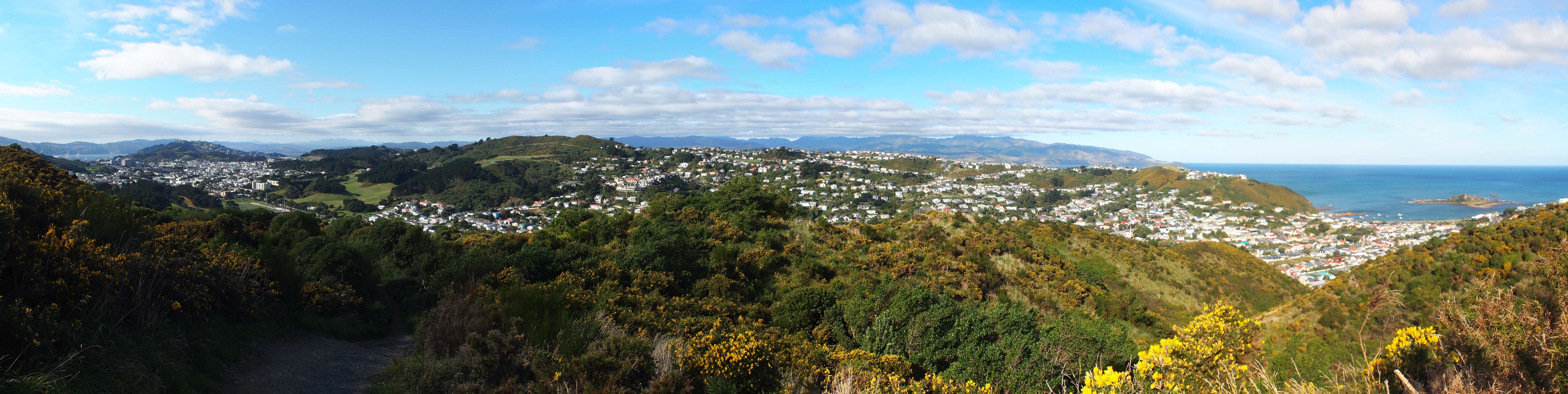 Panorama showing the City to Sea Walkway from Tawatawa ridge in Wellington, New Zealand. The Central Business District is to the left of the photograph, and Island Bay is at the far right.